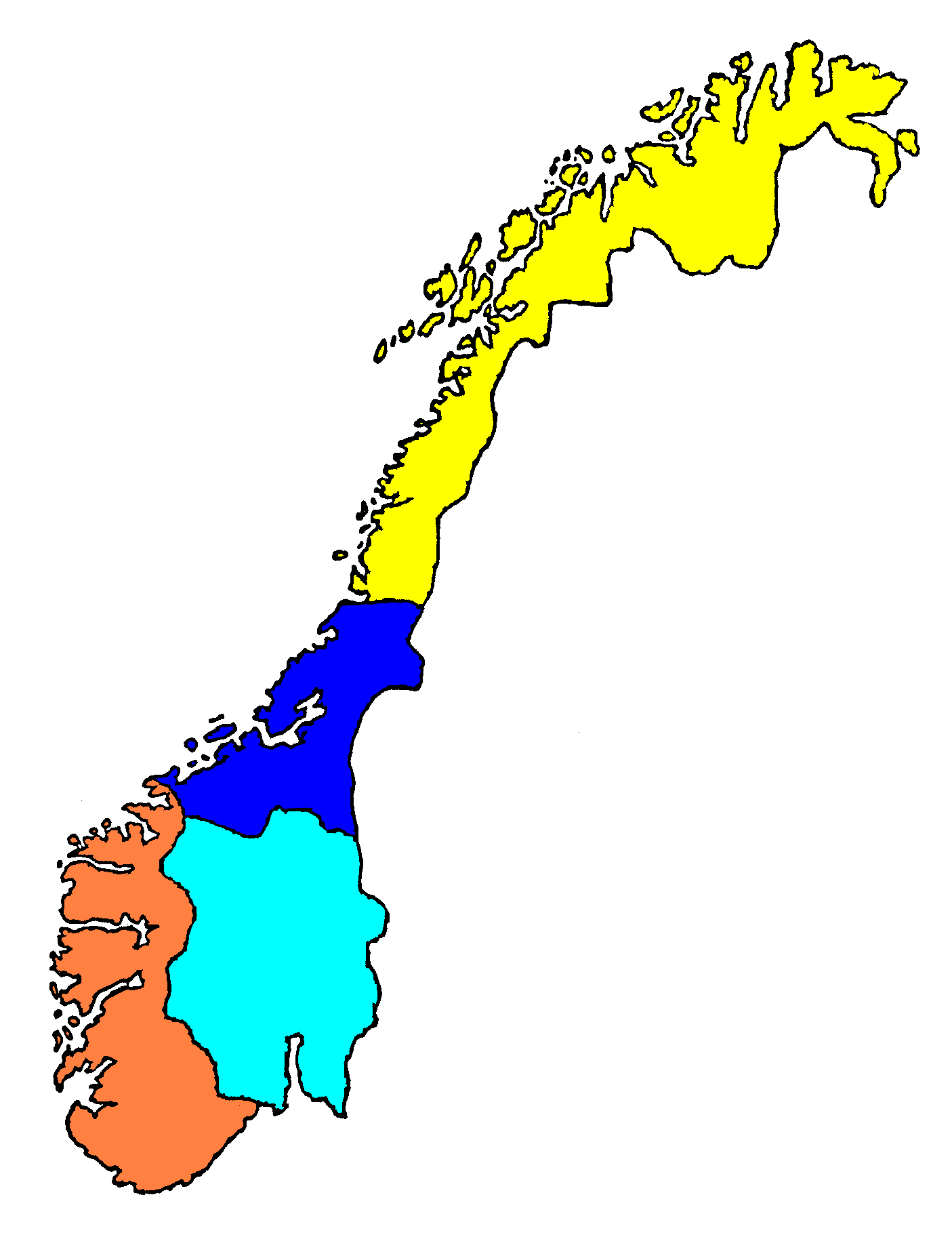 Map of Nowegian dialects North Norwegian Trøndelag Norwegian East Norwegian West Norwegian